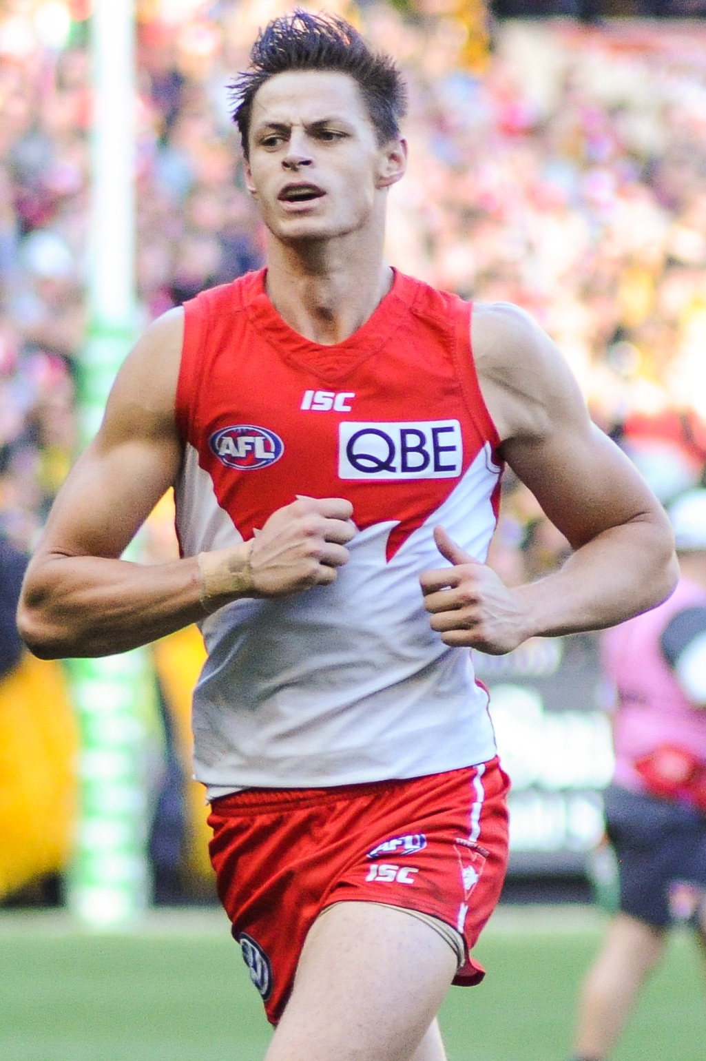 Callum Sinclair during the AFL round thirteen match between Richmond and Sydney on 17 June 2017 at the Melbourne Cricket Ground in Melbourne, Victoria.